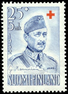 Postage stamp depicting the President of Finland, marshal C.G.E. Mannerheim